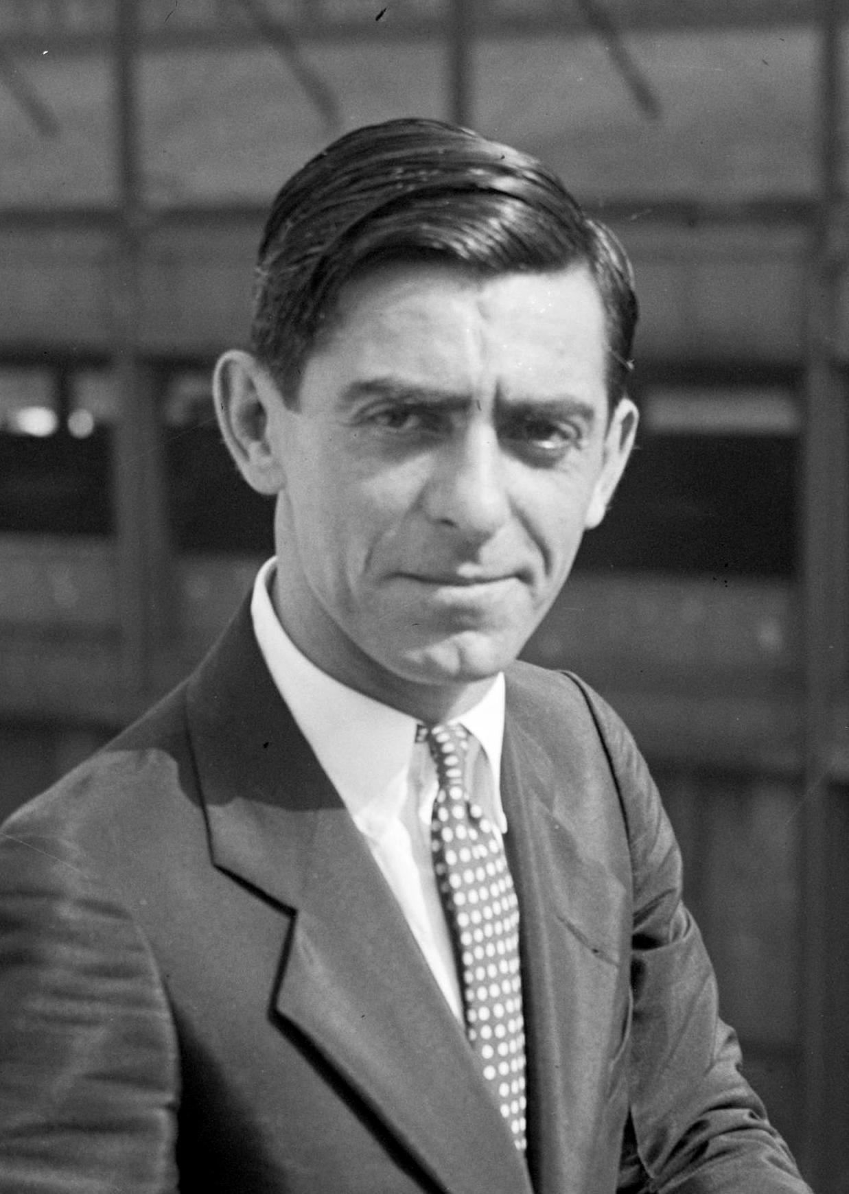 American actor Eddie Cantor (photo cropped for close portrait) Original LOC description: TITLE: Eddie Cantor CALL NUMBER: LC-B2- 6376-17[P&P] REPRODUCTION NUMBER: LC-DIG-ggbain-38208 (digital file from original negative) No known restrictions on publication. SUMMARY: General information about the Bain Collection is available at MEDIUM: 1 negative : glass ; 5 x 7 in. or smaller. CREATED/PUBLISHED: [no date recorded on caption card] NOTES: Title from unverified data provided by the Bain News Service on the negatives or caption cards. Forms part of: George Grantham Bain Collection (Library of Congress). Temp. note: Batch eight loaded. FORMAT: Glass negatives. REPOSITORY: Library of Congress Prints and Photographs Division Washington, D.C. 20540 USA DIGITAL ID: (digital file from original neg.) ggbain 38208 CARD #: ggb2006013620